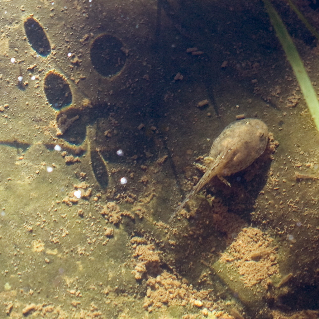 Tadpole of the Yellow-bellied toad (Bombina variegata) near Lovranska Draga, Istria, Croatia.